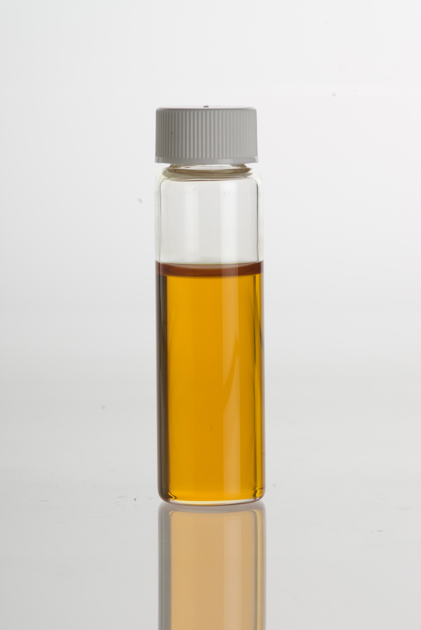 Cassia (Cinnamomum aromaticum) Essential Oil in clear glass vial